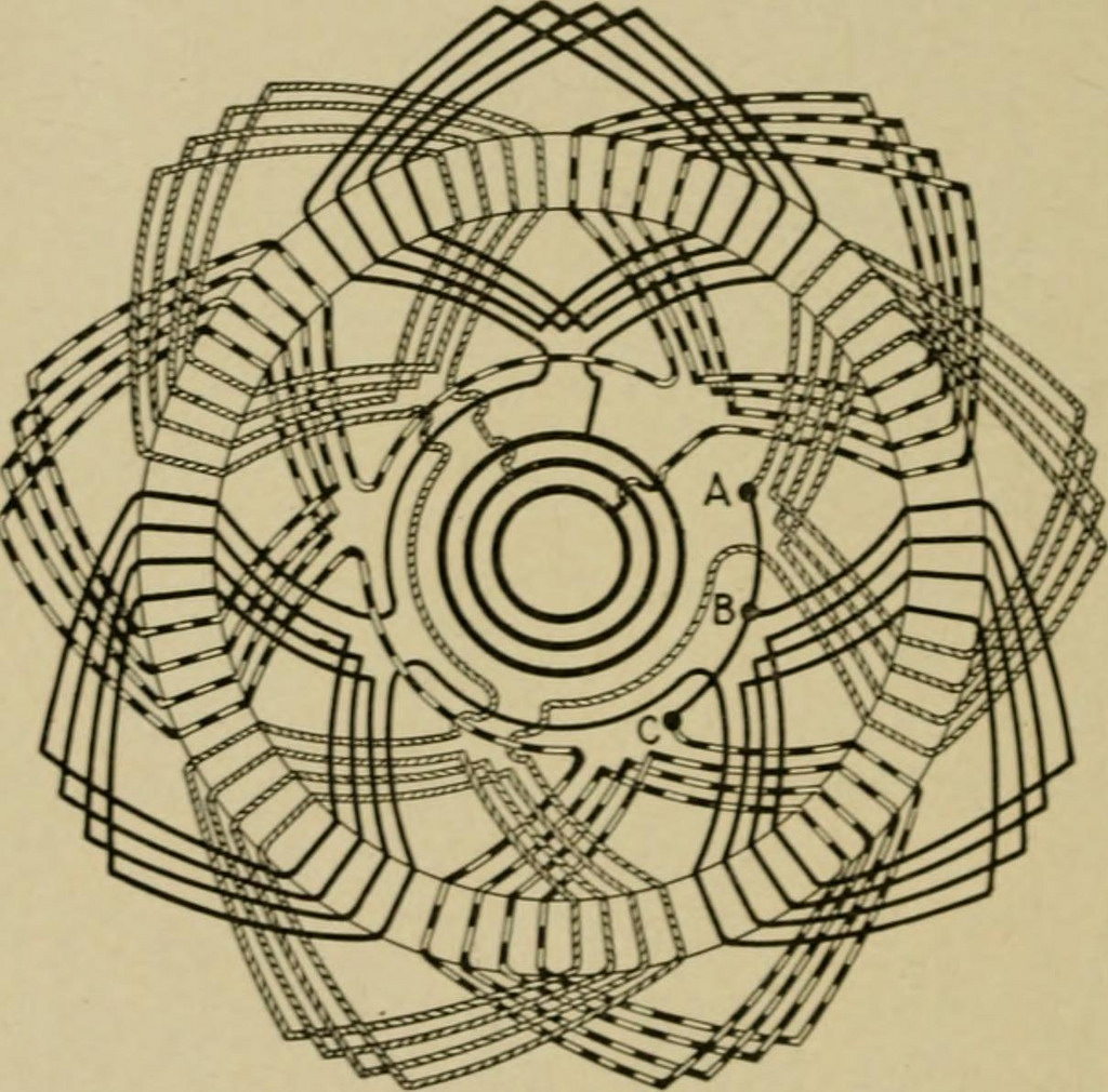 An "end view" diagram of an electromagnetic armature winding